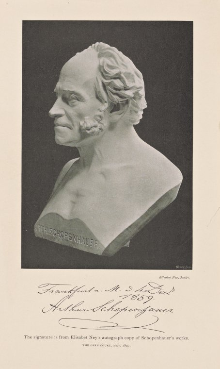 Frankfurt a. M. 4 Dec. 1859 Arthur Schopenhauer. The signature is from Elisabet Ney's autograph copy of Schopenhauer's works